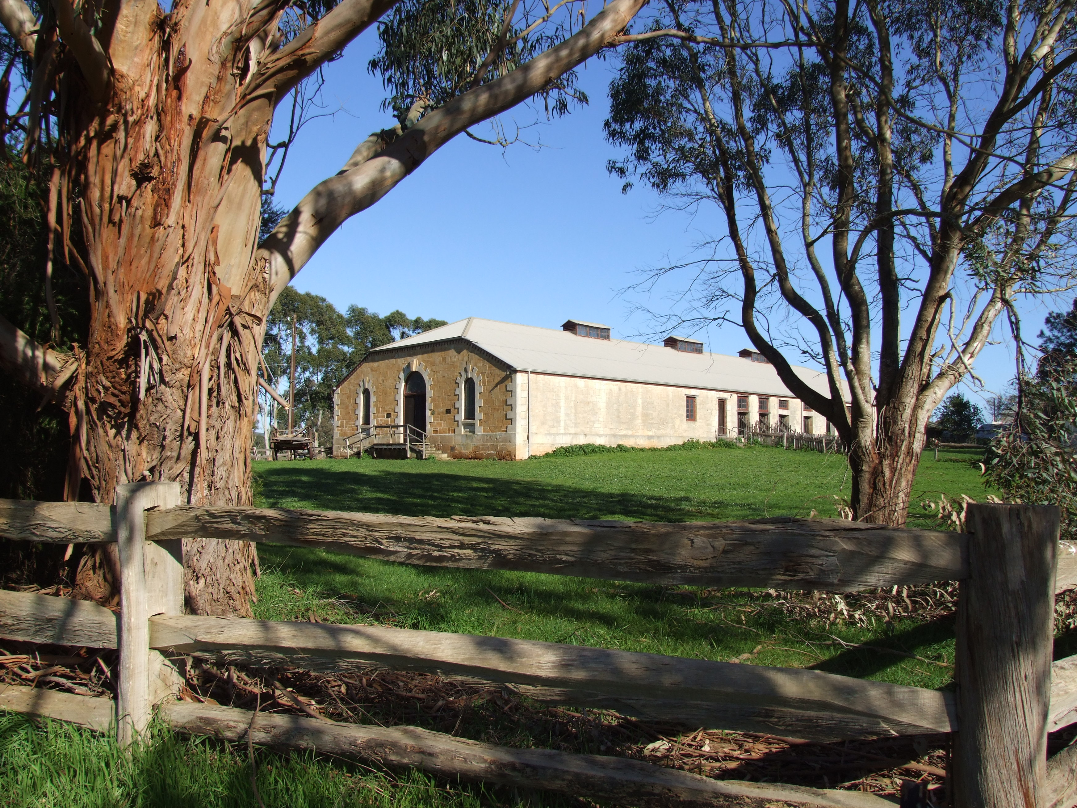 The Glencoe Woolshed has barely changed in over 150 years.